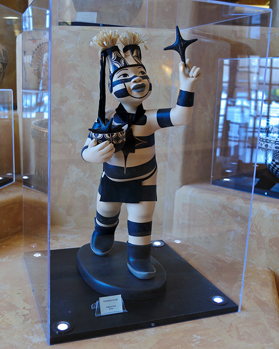 Ceramic sacred clown inside a display case. This is on display in the lobby of the Buffalo Thunder Hilton Resort Hotel in Pojoaque, NM.